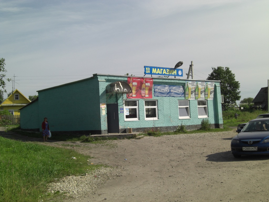 Shop in Shpankovo (Russia)